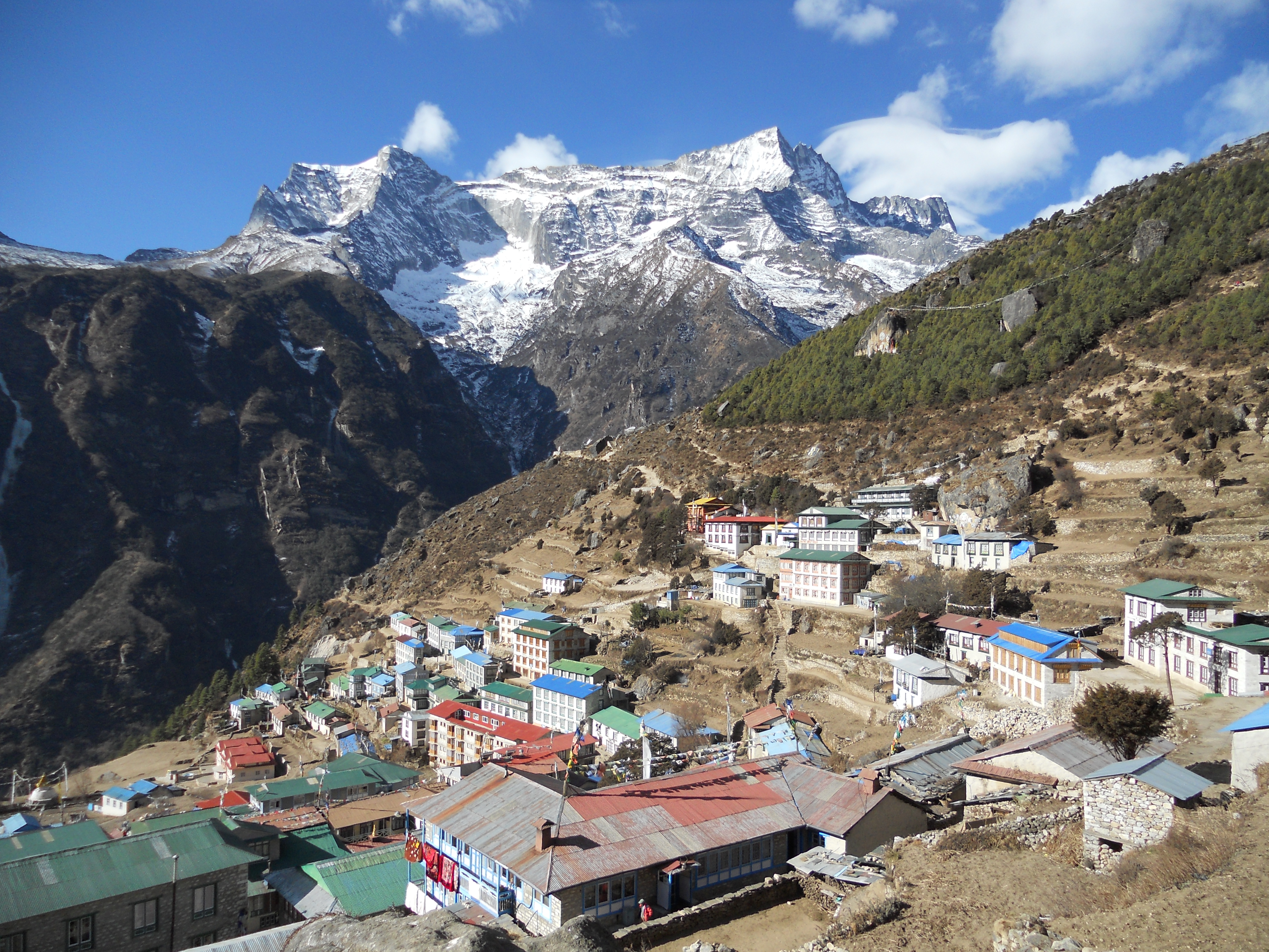 This picture is taken with the help of mr Shiva shrestha